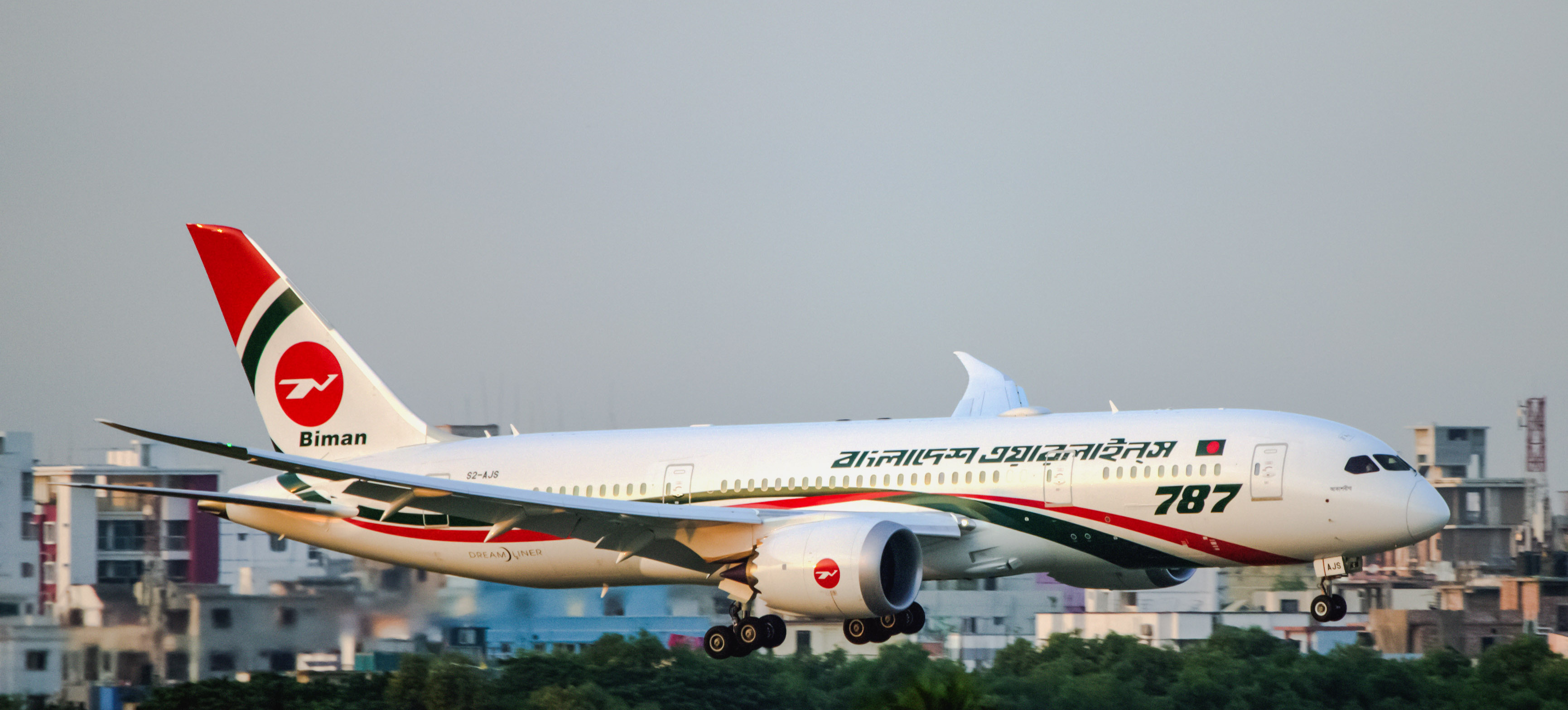 Beautiful Biman Bangladesh Airlines Boeing 787-8 Dreamliner arriving from Singapore .